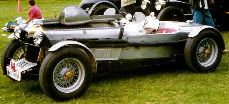 Riley 12/4 Special 1934